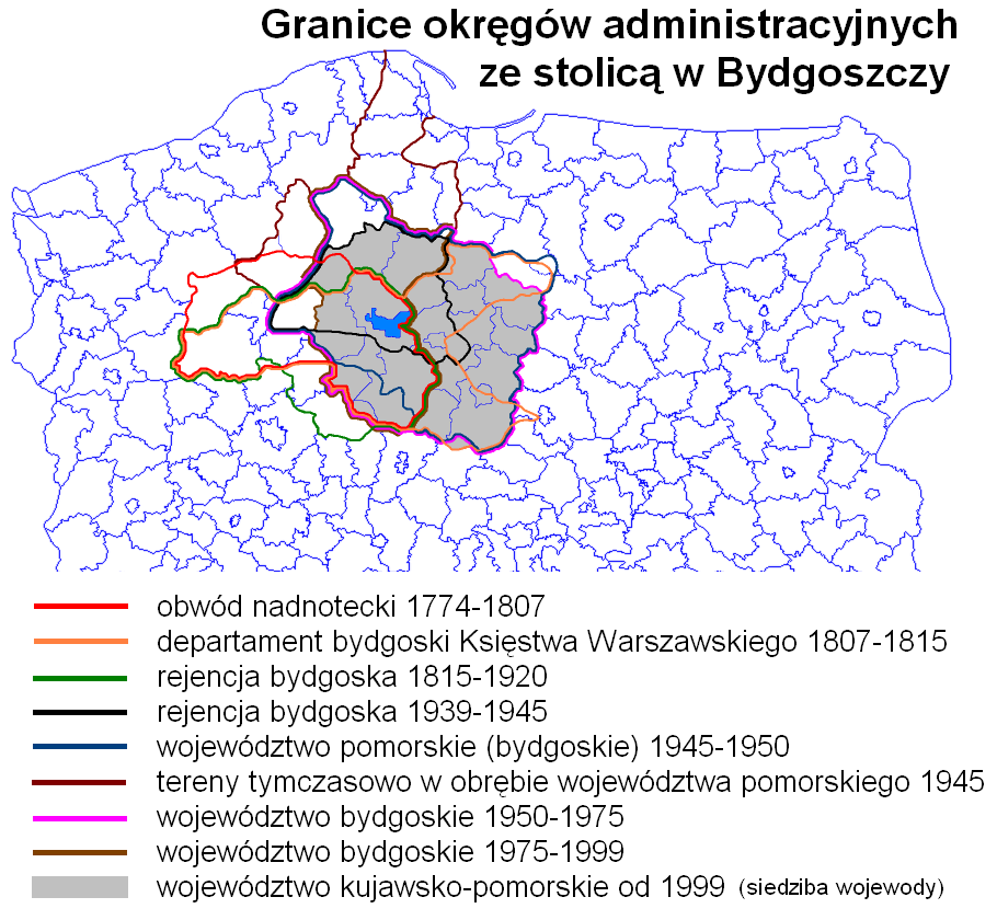 The boundaries of the administrative districts of the capital in Bydgoszcz